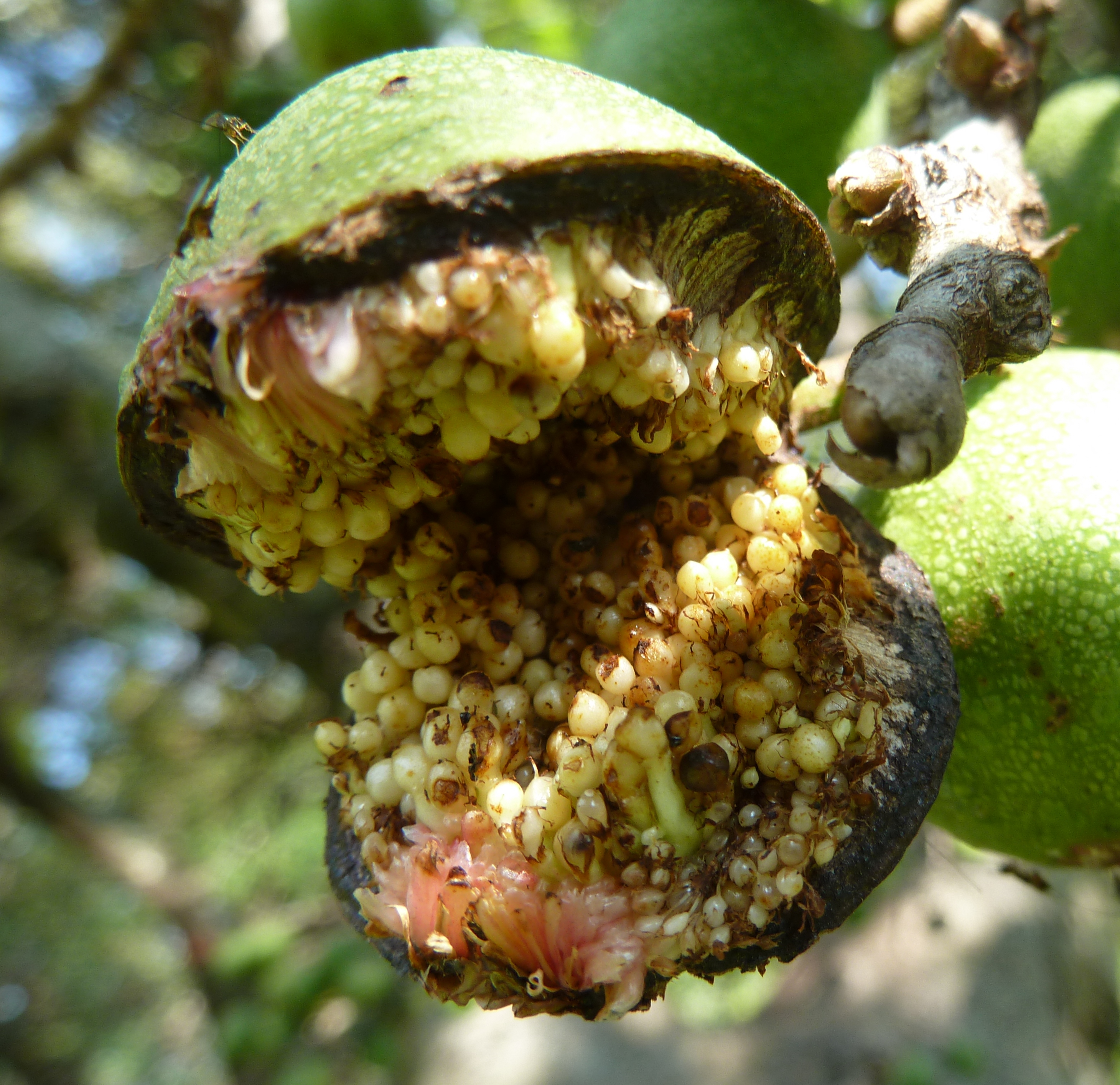 Split fruit of a Cape fig in Jan Celliers Park, Pretoria